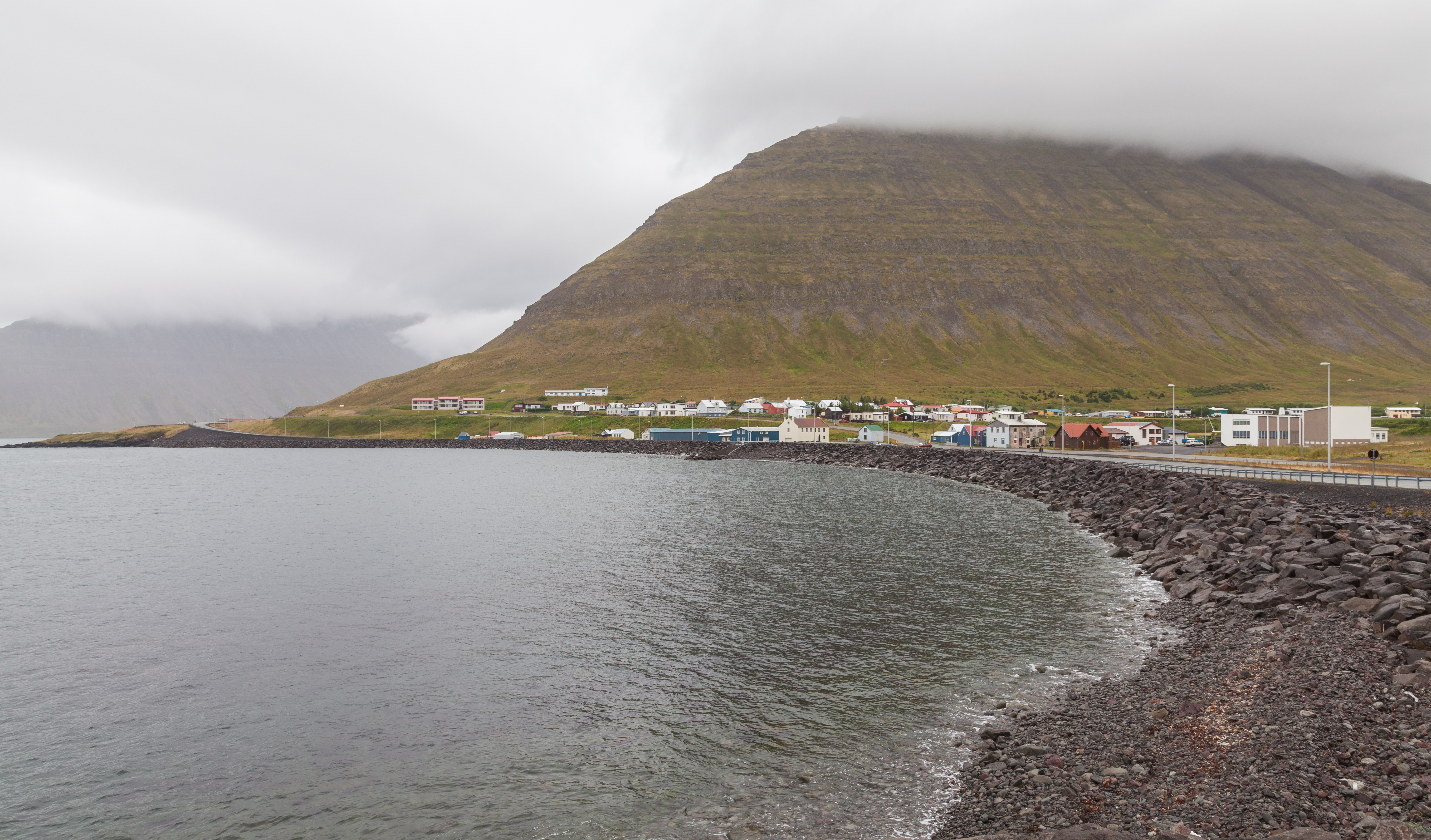 Ísafjörður, Vestfirðir, Iceland